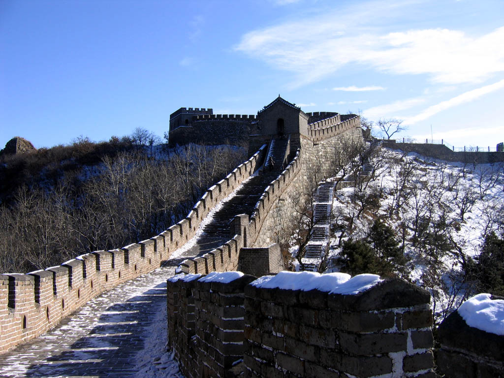 Segment of the Great Wall